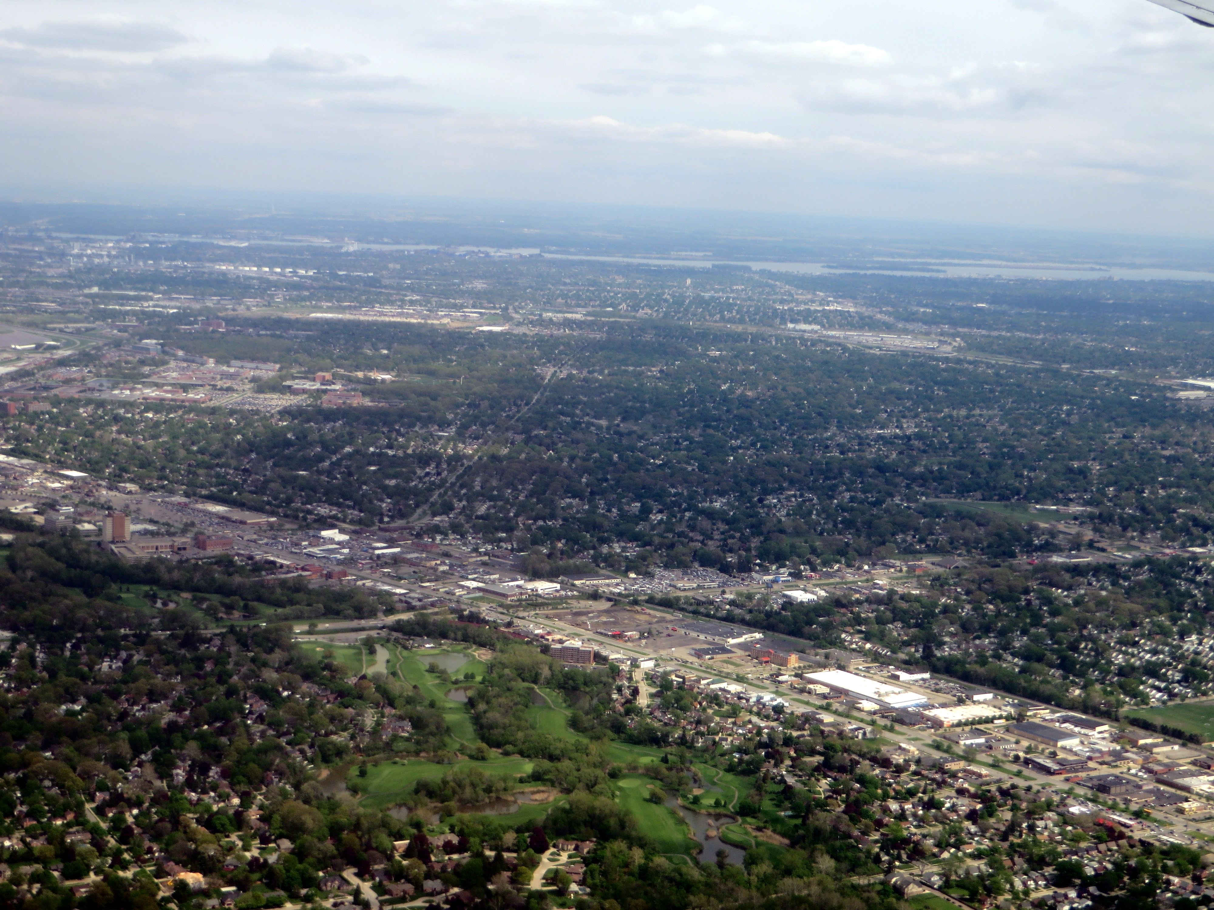 Dearborn is a city in the state of Michigan. It is located in Wayne County and is part of the Detroit metropolitan area. Dearborn is the eighth largest city in the State of Michigan. As of the 2010 census, it had a population of 98,153. First settled in the late 18th century by French farmers in a series of ribbon farms along the Rouge River and the Sauk Trail, the community grew with the establishment of the Detroit Arsenal on the Chicago Road linking Detroit and Chicago. It later grew into a manufacturing hub for the automotive industry. The city was the home of Henry Ford and is the world headquarters of the Ford Motor Company. It has a campus of the University of Michigan as well as Henry Ford Community College. Dearborn has The Henry Ford, the United States largest indoor-outdoor museum complex and Metro Detroit's leading tourist attraction. Dearborn residents are primarily of European or Middle Eastern heritage. German, Polish, Irish and Italian are the primary European ethnicities. Middle Eastern ancestries make up the largest ethnic grouping with Lebanese, Yemeni, Iraqi, Syrian and Palestinian groups present.